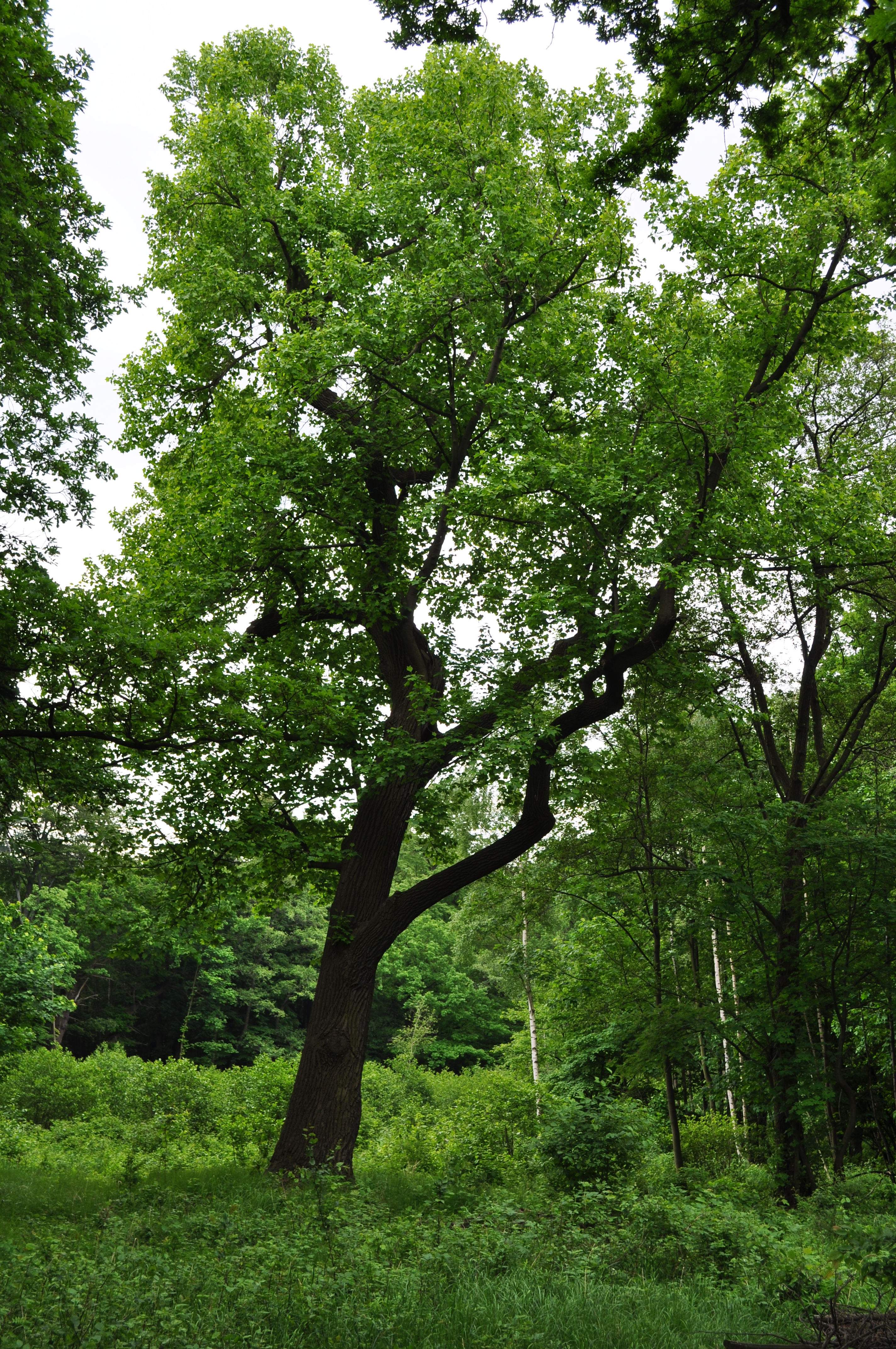 Tulip Tree in Arboretum close to the Castle Jezeří, Northern Bohemia